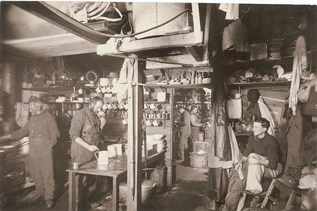 Format: Silver gelatin photonegative Notes: First Australasian Antarctic Expedition, 1911-1914 Frank Hurley visited the Antarctic six times between 1911 and 1932. For more information and pictures, visit Discover Collections: Hurley's Antarctica on the State Library of NSW's website: From the collections of the Mitchell Library, State Library of New South Wales Information about photographic collections of the State Library of New South Wales .au/search/SimpleSearch.aspx Persistent url: .au/item/itemDetailPaged.aspx?itemID=413093